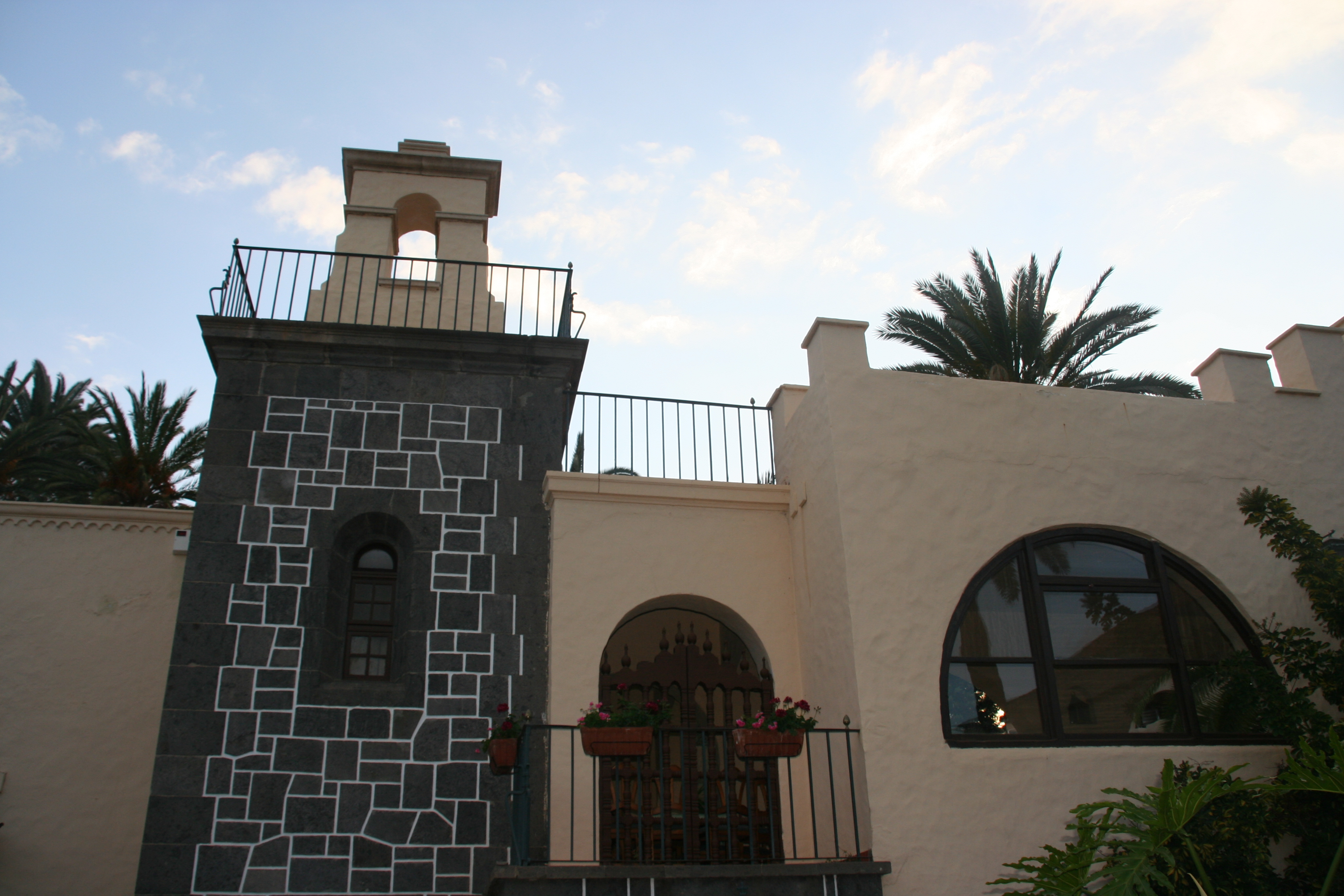 Canarian Village ("Pueblo canario"). Las Palmas de Gran Canaria, Canary Islands.